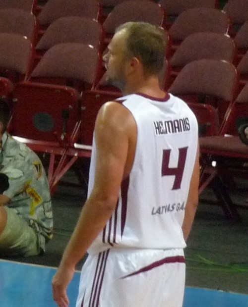 Uvis Helmanis (b.1972). Picture taken during friendly match between Latvia and Sweden.